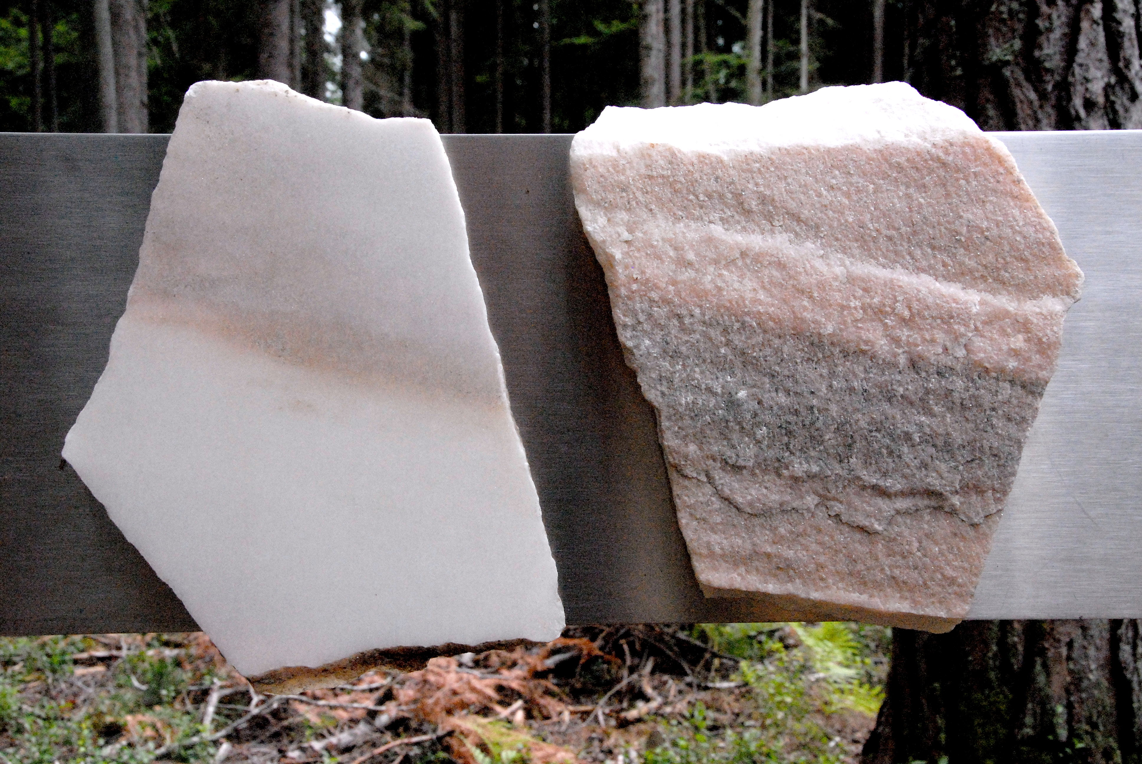 Poertschach marble samples, exposed at Sekull in Techelsberg, district Klagenfurt Land, Carinthia, Austria, EU